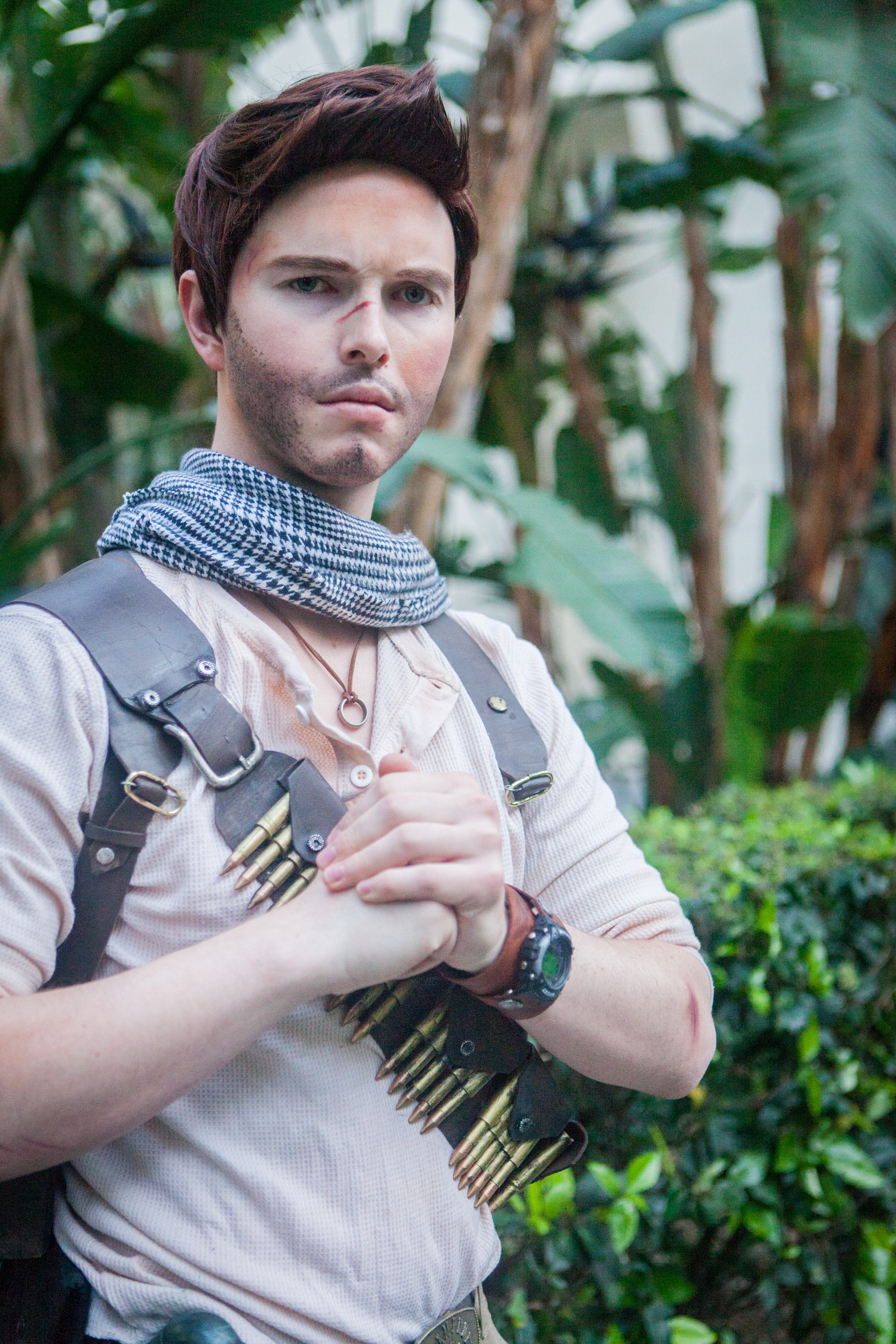 Wondercon 2014-7775